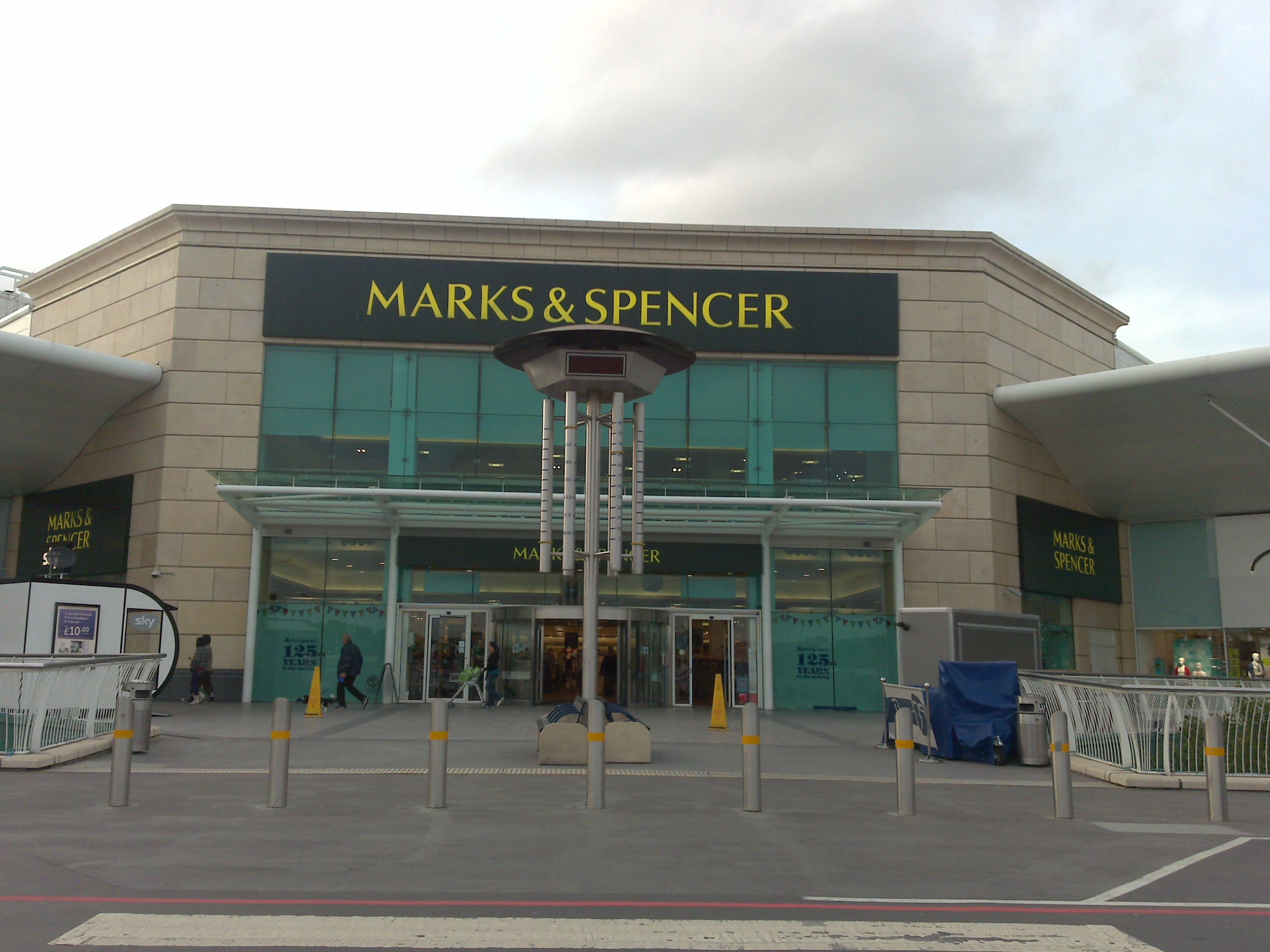 Marks & Spencer and clock as seen from Castlepoint Shopping Centre carpark